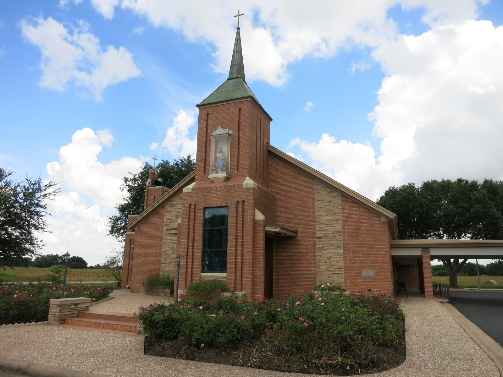 Photo shows the St. Mary's Catholic Church at 10471 Grotto Road, Sealy, Texas. View is to the southwest.